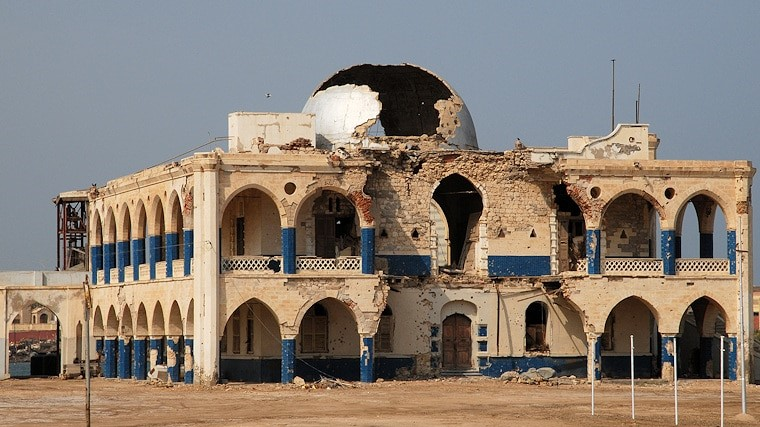 Former Imperial Palace of haile selassie Ethiopian king, Massawa Eritrea